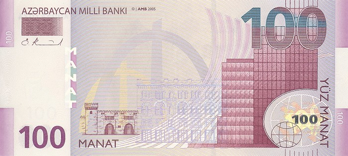 obverse of 100 AZN